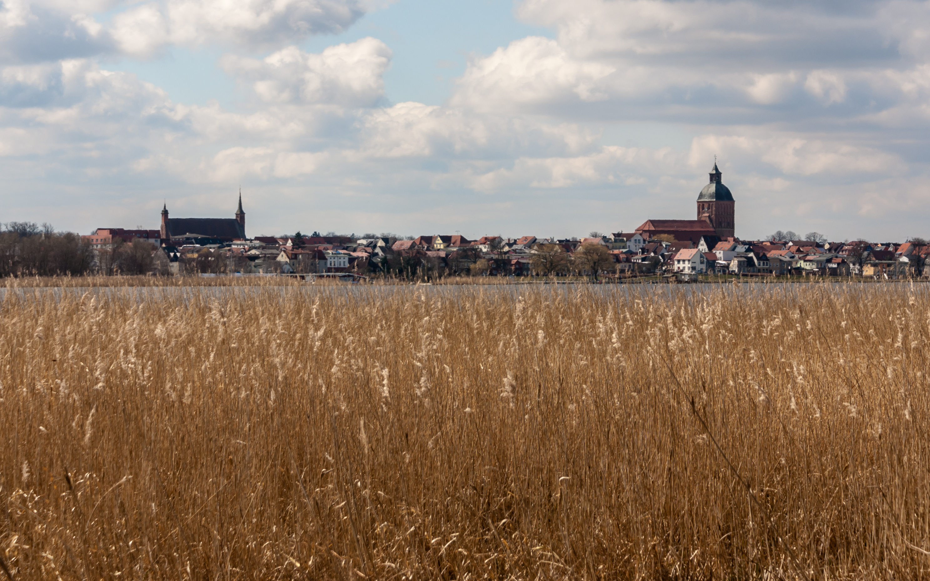 View of Ribnitz from Pütnitz